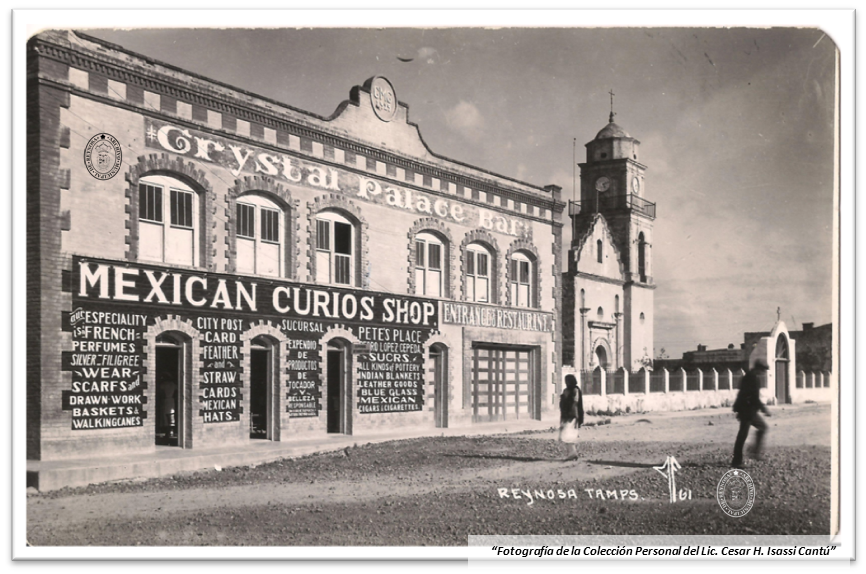 Crystal Palace Bar and the Church of Our Lady of Guadalupe, circa 1929,Reynosa, Tamaulipas, Mexico